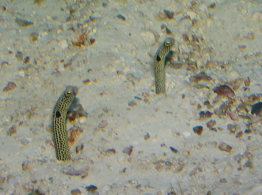 Spotted Garden Eel (Heteroconger hassi) at Newport Aquarium in Newport Kentucky.